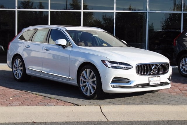 2018 Volvo V90 T5 AWD Inscription